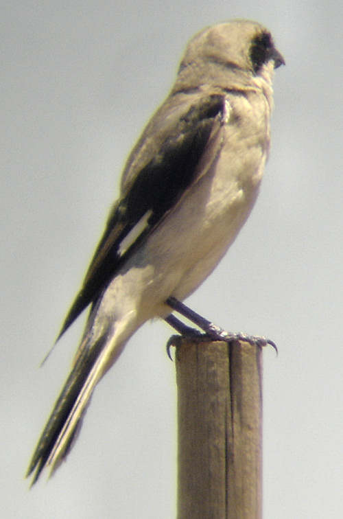 Photographed at Faan Meintjies reserve in South Africa.